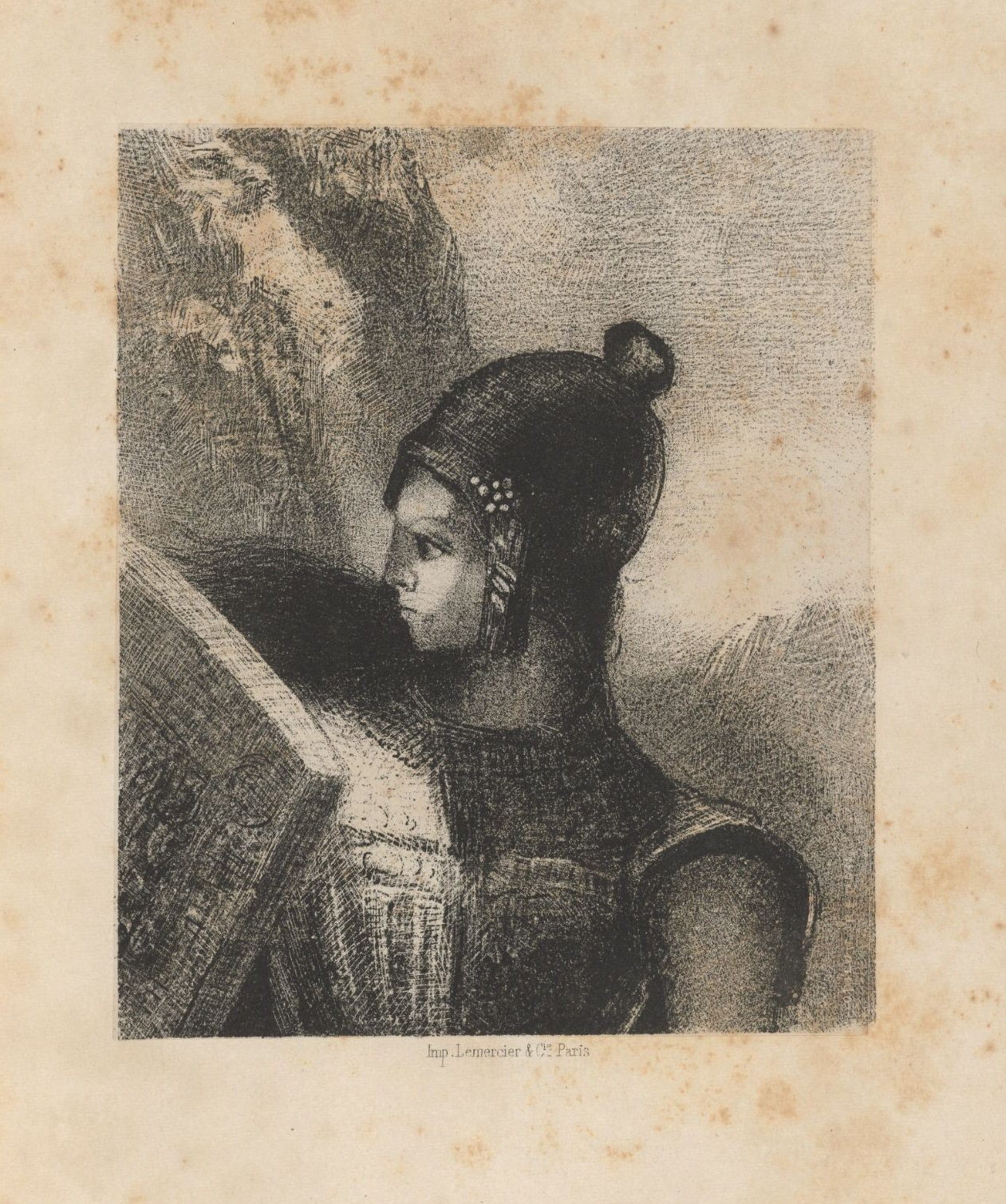 Illustration: "Brünnhilde" from Revue Wagnérienne (i.e. Richard Wagner, 1813-1883). Music periodical published in Paris; 8 fév. 1885. TS 40.40, Harvard Theatre Collection, Houghton Library, Harvard University